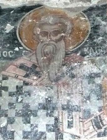 Saint George Church in Mlado Nagorichane Fresco - Early 17 Century